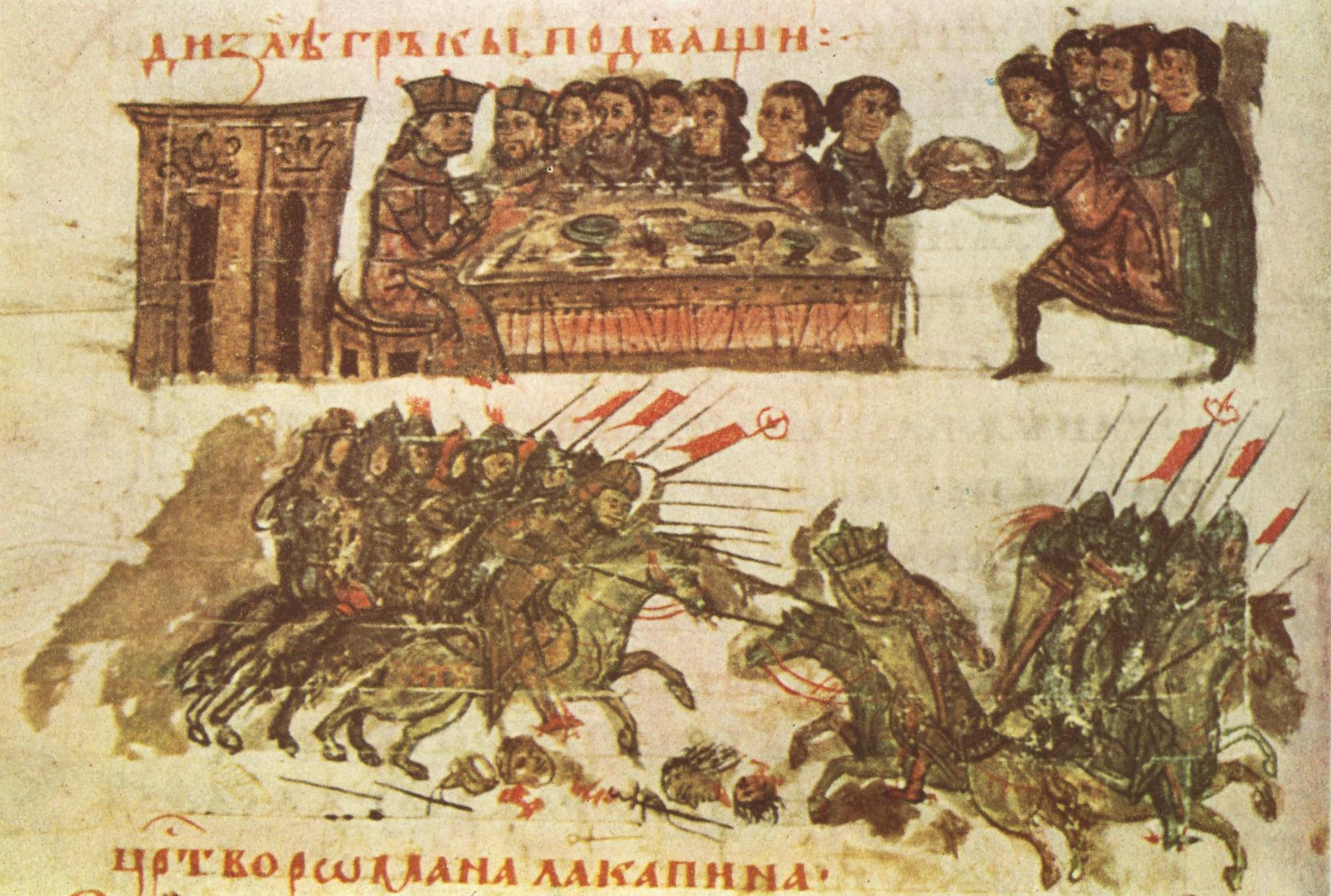 Miniature 60 from the Constantine Manasses Chronicle, 14 century: Feast in Constantinople in the honour of tsar Simeon and a Bulgarian attack upon the Romans.